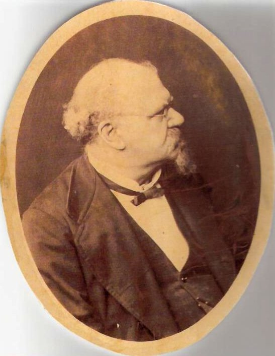 scan picture of Natural History Museum of Gray